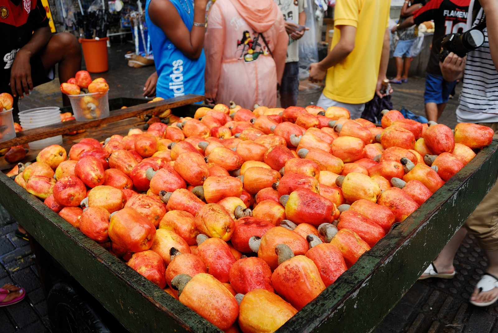 Cashew fruit for sale in Joao Pessoa, Brasil